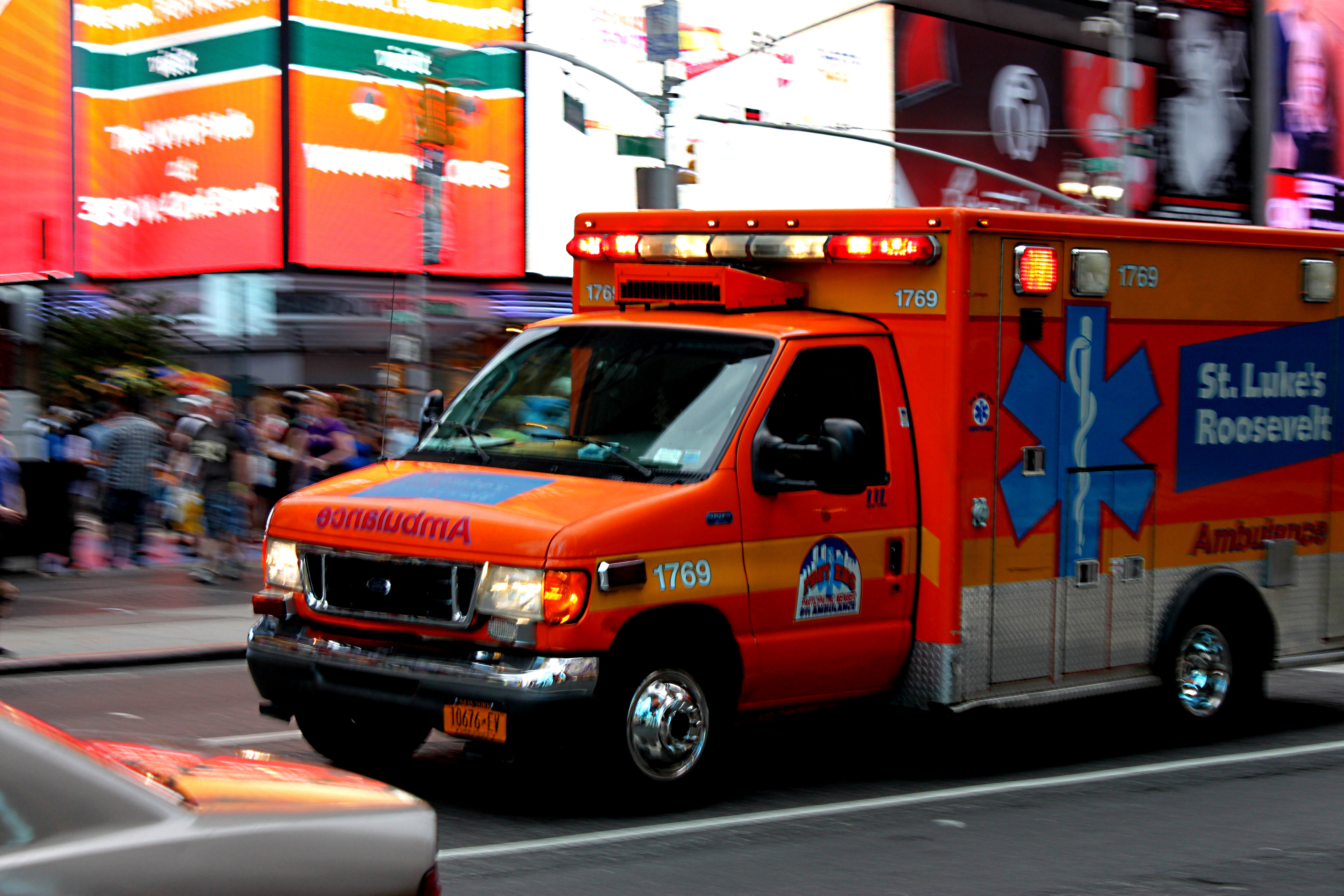 US Emergency Service Unit